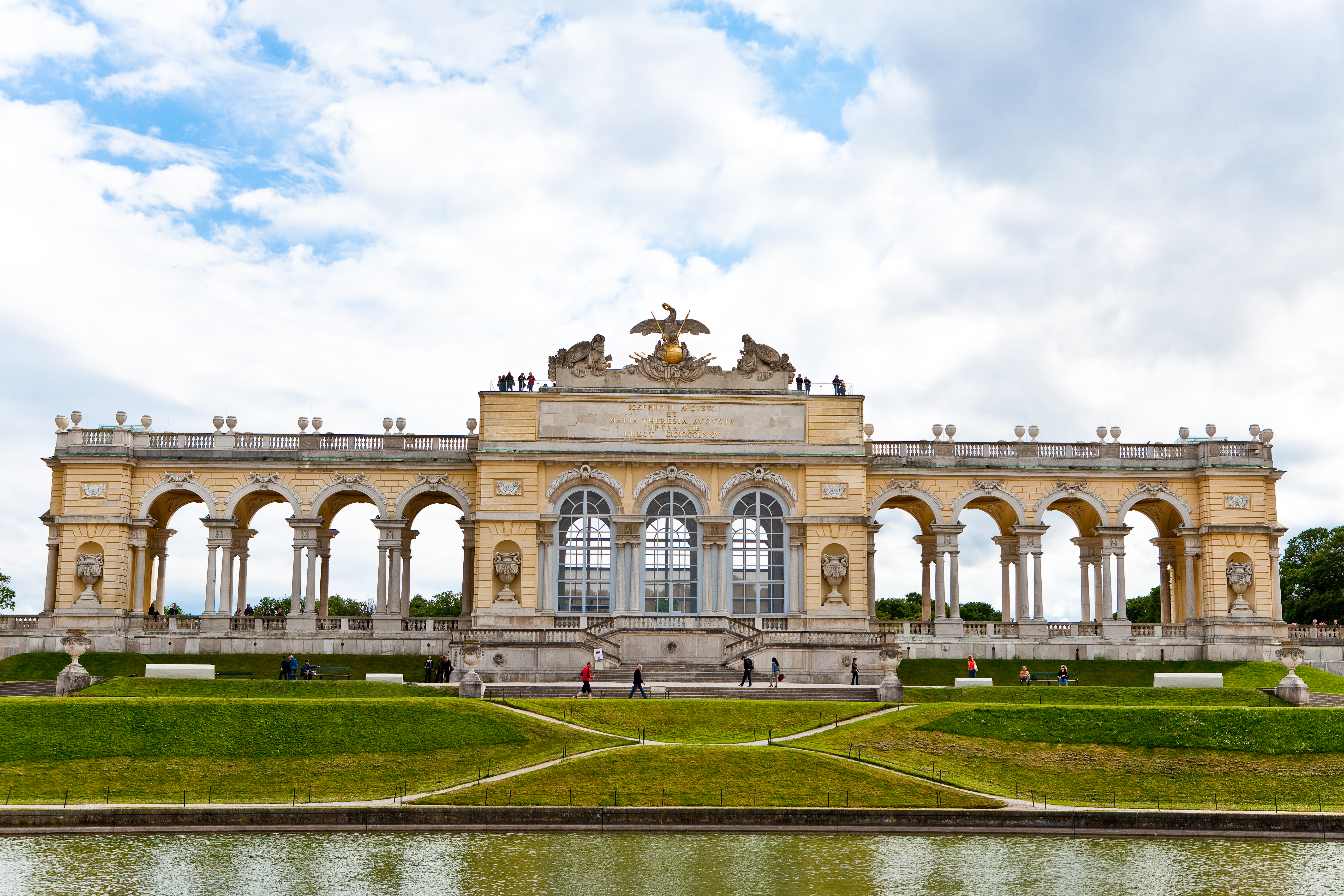 The Gloriette, sitting on a hill behind the Schonbrunn Palace in Vienna, Austria